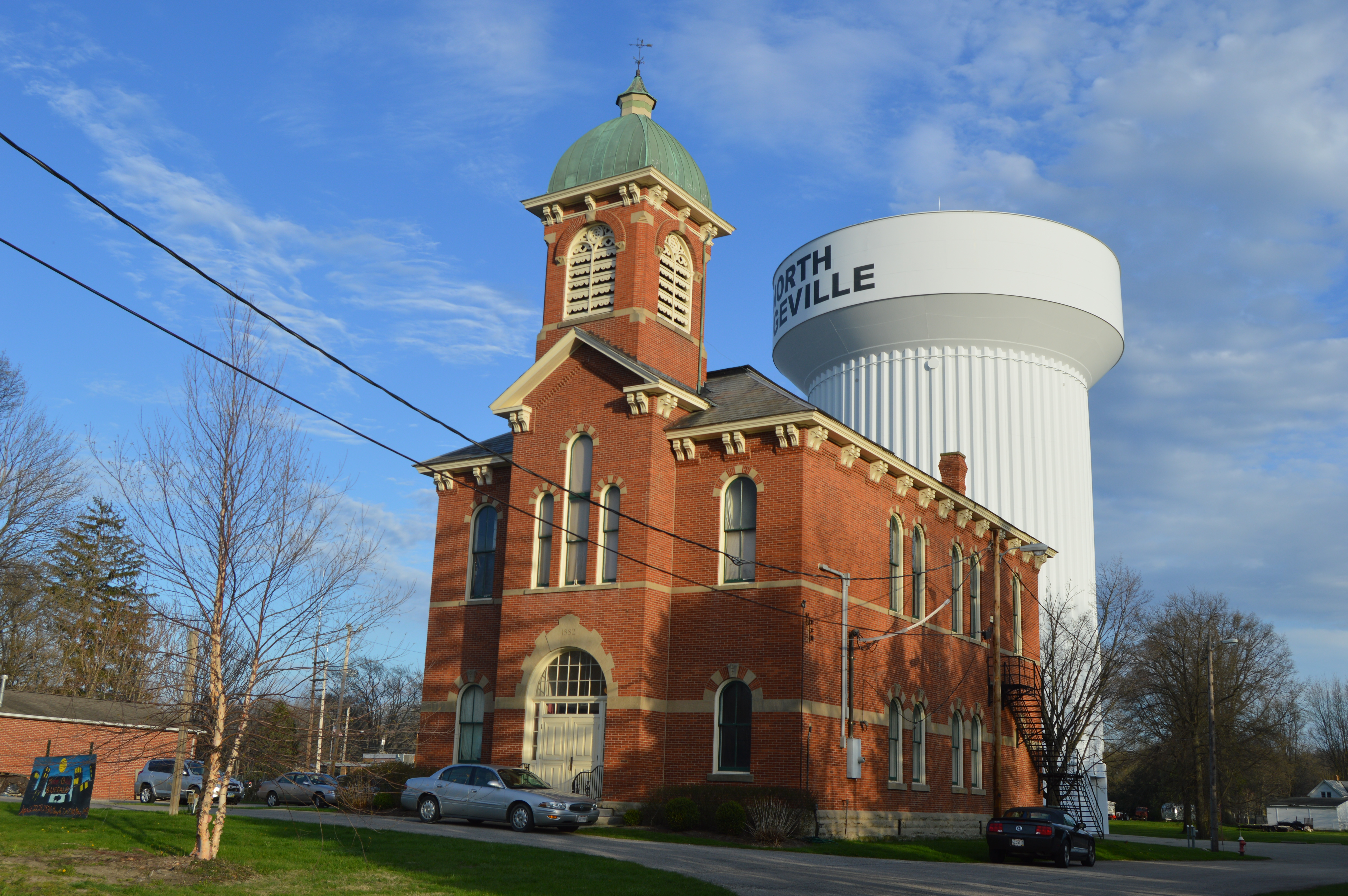 Front and western side of the North Ridgeville City Hall, located at 36119 Center Ridge Road (U.S. Route 20) in North Ridgeville, Ohio, United States. Built in 1882, it is listed on the National Register of Historic Places.